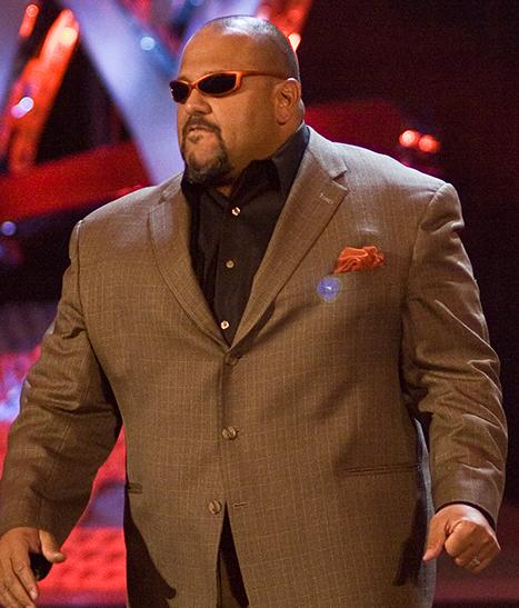 Tazz WWE Monday Night Raw 800th Tampa